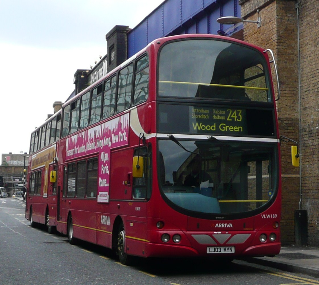 An Arriva bus laying over on route 243 duties at Waterloo, London.